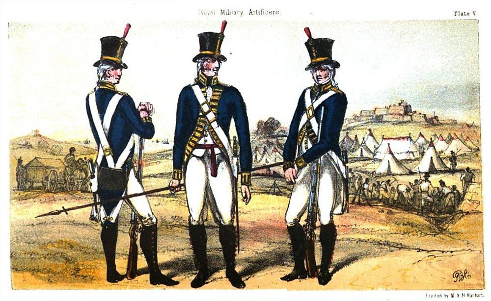 Uniform of the Royal Military Artificers, 1795